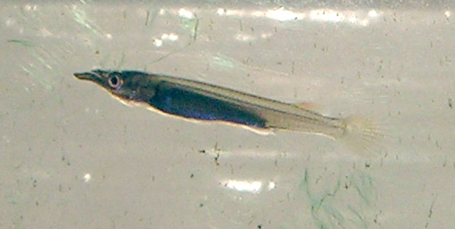 Dermogenys sp. fry, about 3 weeks old.